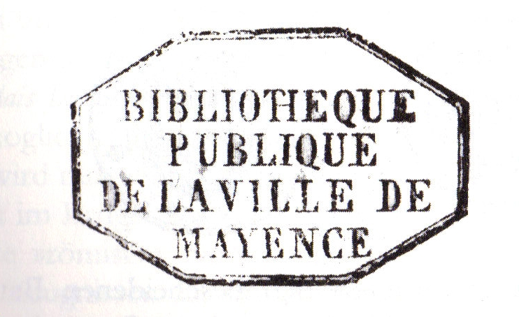 Bibliotheksstempel